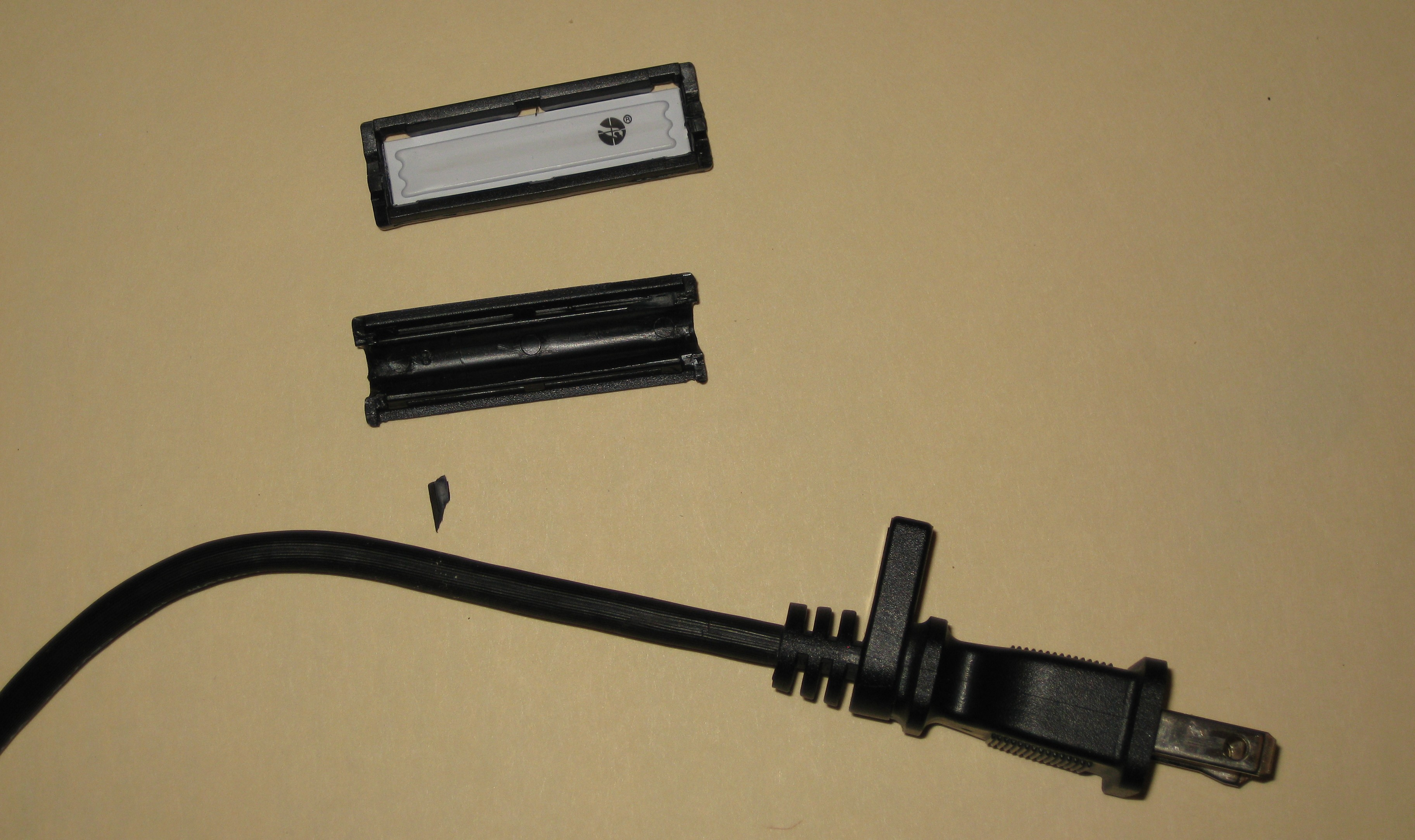 Emtag™ anti-theft device removed from power cord, showing acusto-magnetic (AM) tag inside.